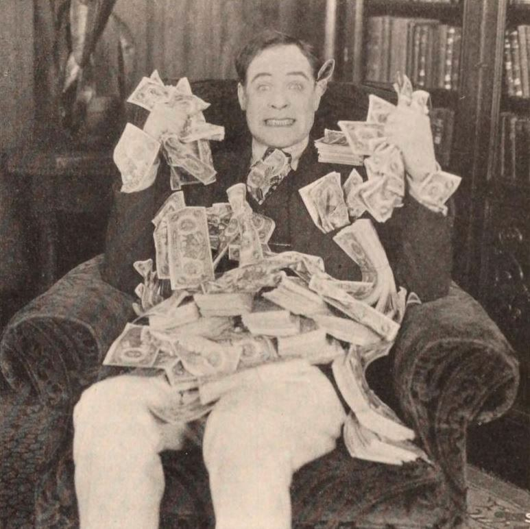 Still from the American comedy film See My Lawyer (1921) with T. Roy Barnes, on page 73 of the March 19, 1921 Exhibitors Herald.